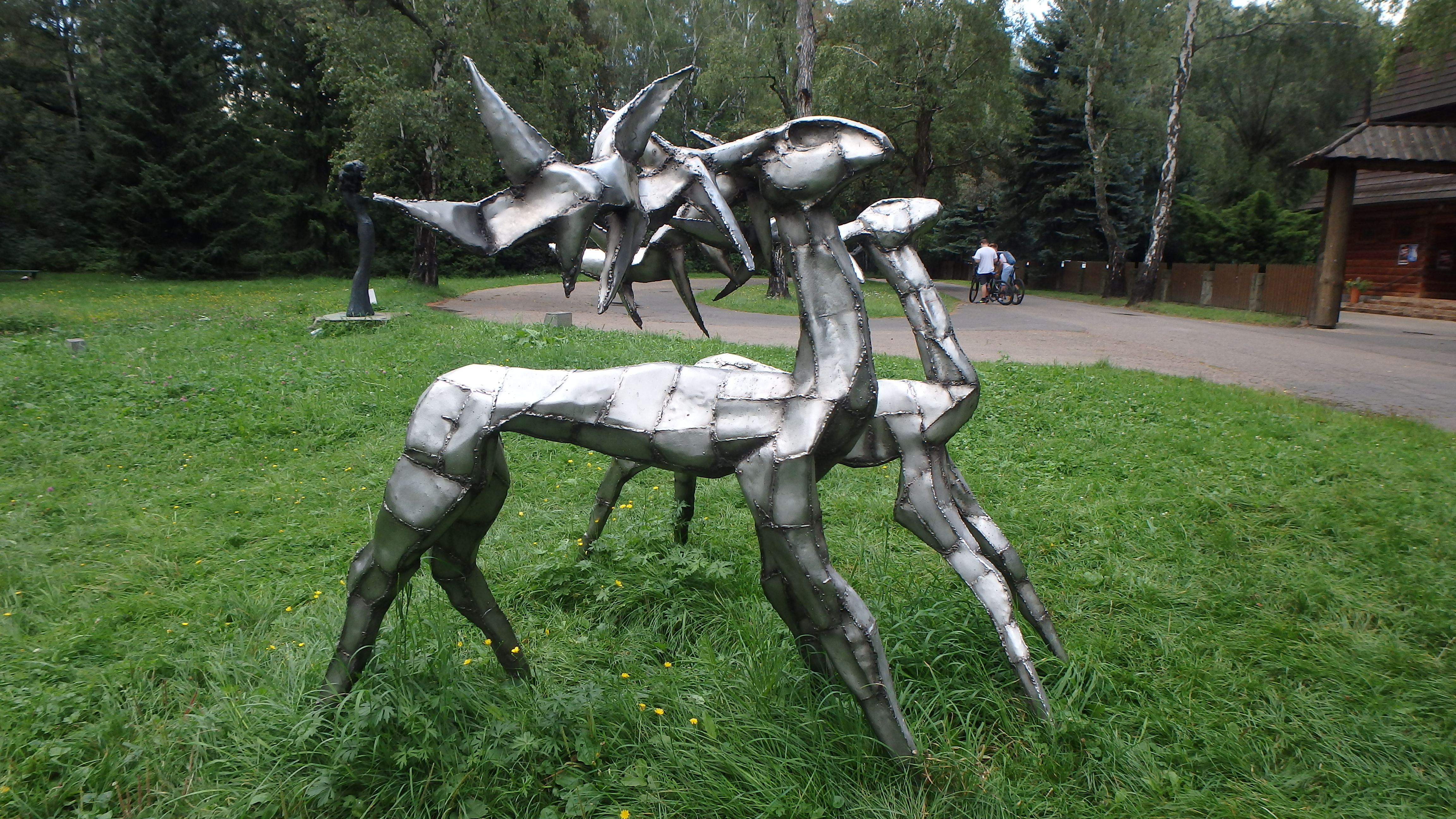 Galeria Rzeźby Śląskiej w Parku Śląskim, Chorzów